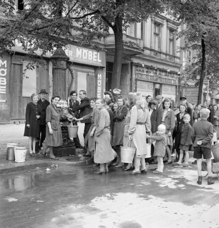 Germany Under Allied Occupation German civilians queue at a streetside water pump in Berlin. Such pumps provided the only source of clean water in the German capital due to the destruction of much of the mains system.